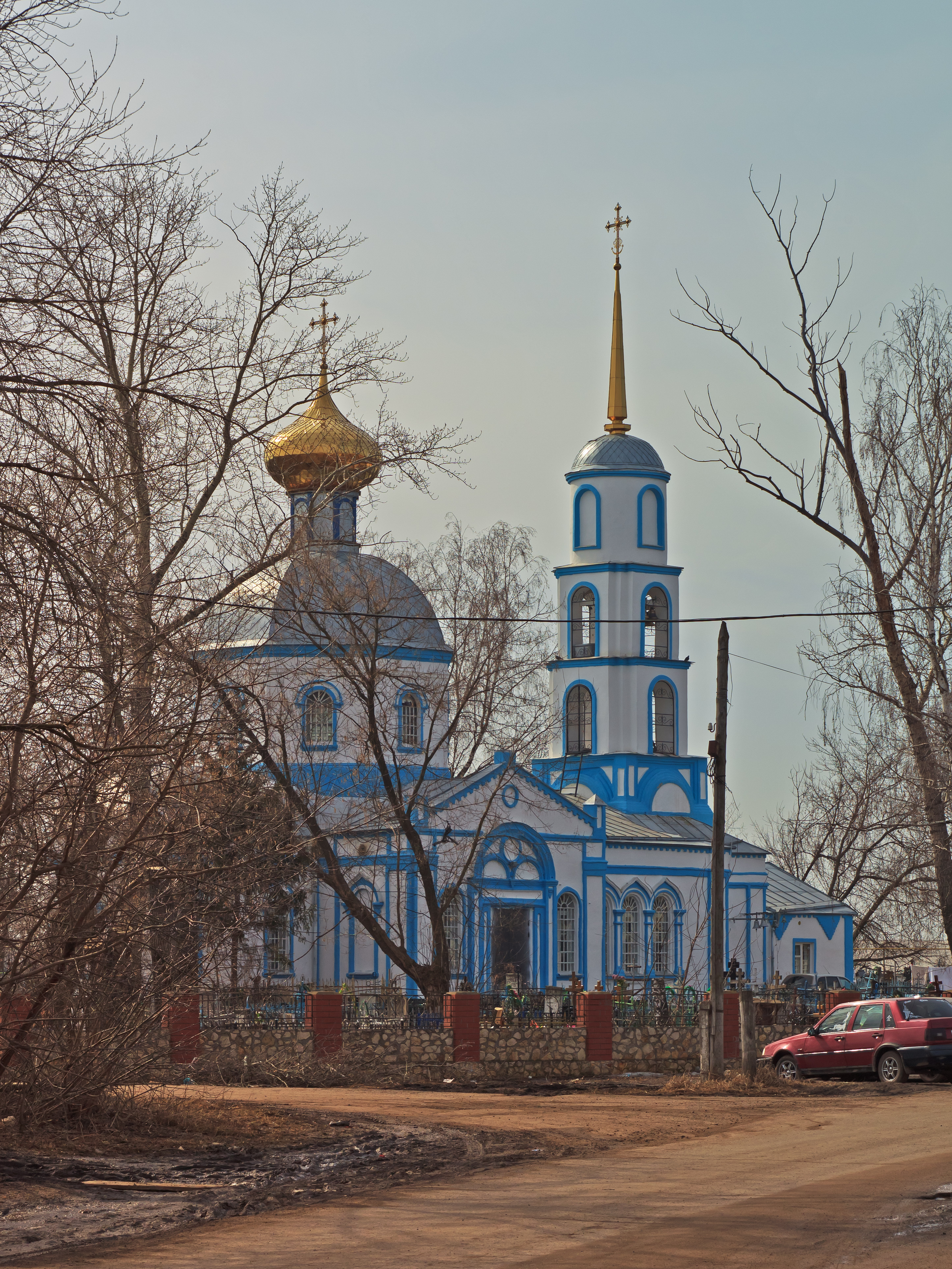 Church of the Assumption in Ryazhsk, Ryazan Oblast, Russia.